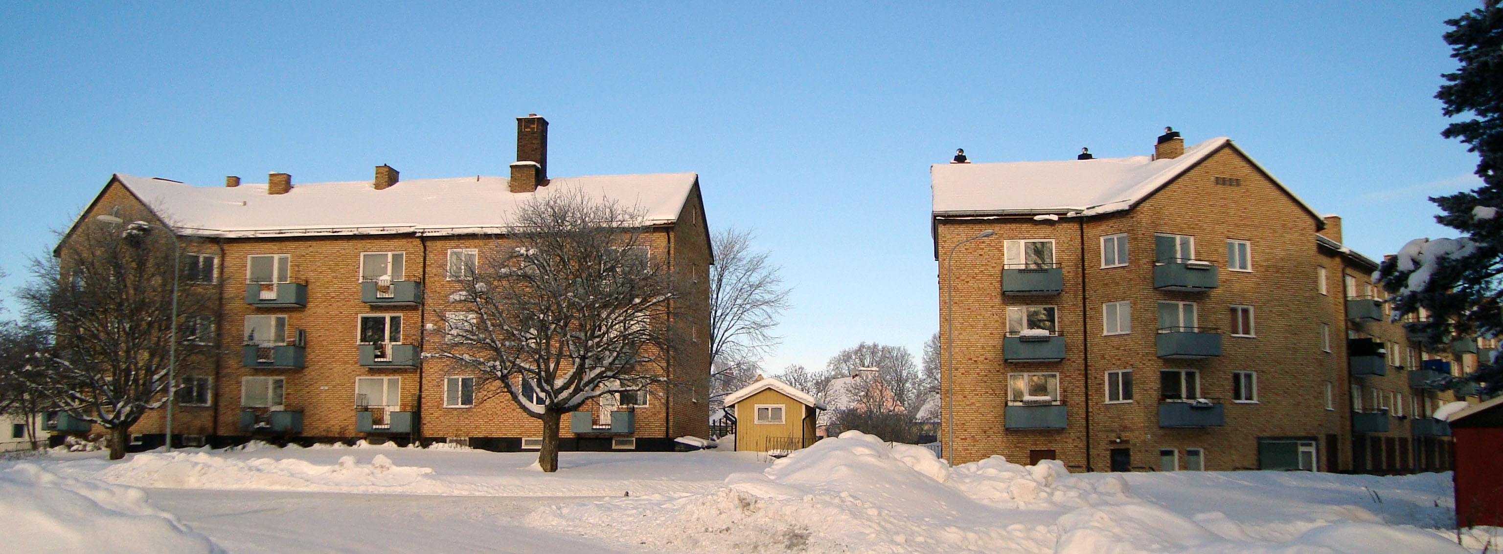 Apartment block Hedemorahem, Hedemora, Sweden